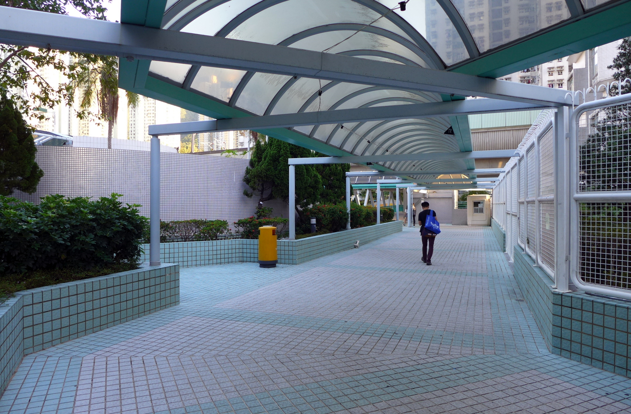 Ma On Shan Centre Podium Access